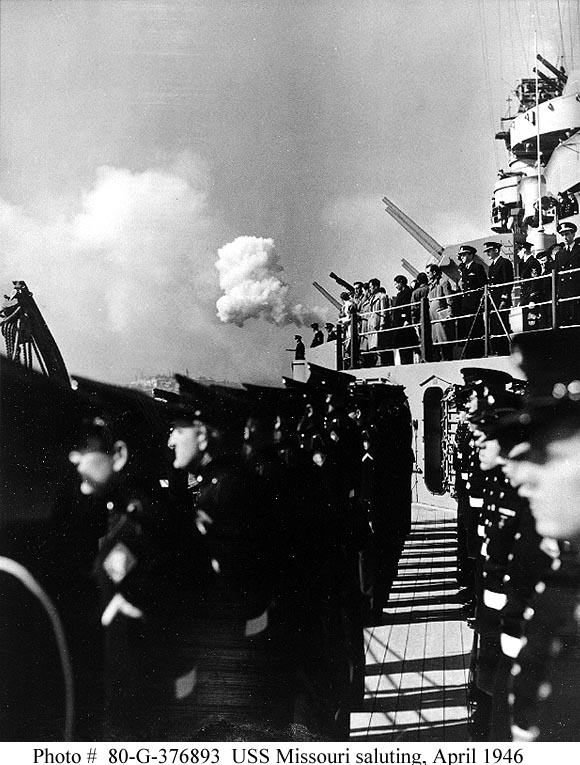 Ship's Marines stand at attention as the body of the late Mehmet Munir Ertegun, Turkish Ambassador to the United States, is lowered over the side, at Dolmabahce, Turkey, 5 April 1946. Missouri had carried his body home from the U.S. as part of a diplomatic cruise in the Mediterranean. Note smoke in the background from gun salutes. Photographed by Lieutenant Commander Dewey Wrigley.